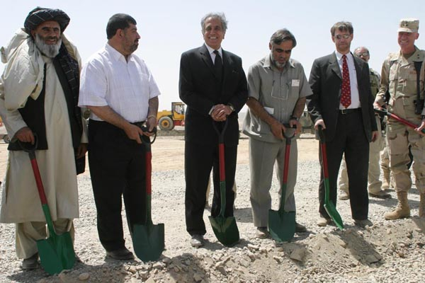 Sept 9, 2004, Kandahar Road, Afghanistan: U.S. Ambassador Zalmay Khalilzad broke ground with the Governor of Oruzgan, Minister of Public Works, Governor of Kandahar, USAID Afghanistan Director, Patrick Fine, and U.S. Major General Olson for the Kandahar to Tirin Kot Road. By cutting the drive time from 12 hours to 3 hours, the 130km road will restore a valuable trade route between two key southern cities in Afghanistan - improving security, commerce and access to health care and education for tens of thousands of Afghans. The road is funded by the U.S. Agency for International Development and will be built by the U.S. Army's 528th Engineer Battalion. It is expected to be completed by the end of 2005 and will cost approximately $20 million.